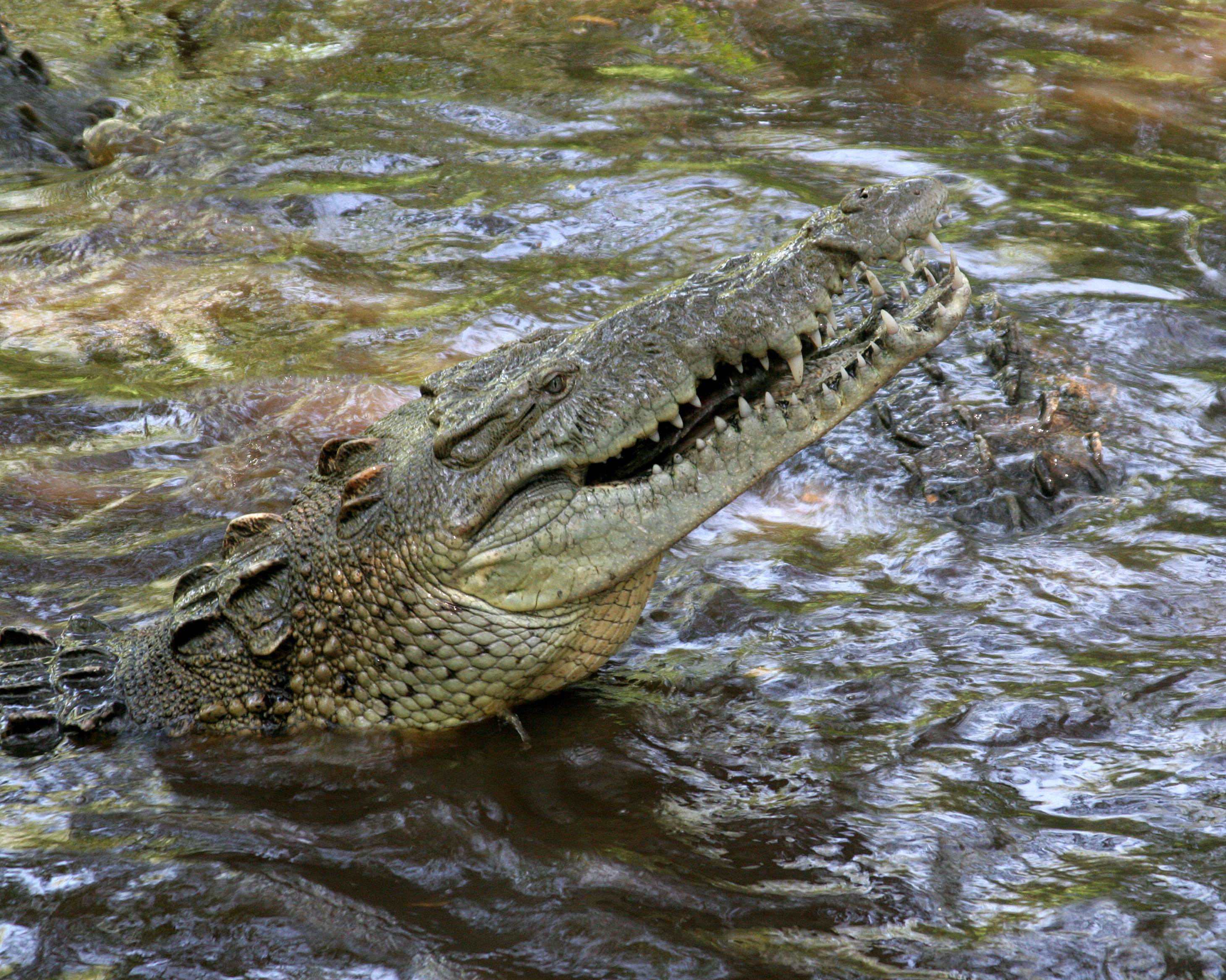 Crocodylus acutus, or american crocodyle, at a swamp in La Manzanilla, Jalisco, Mexico